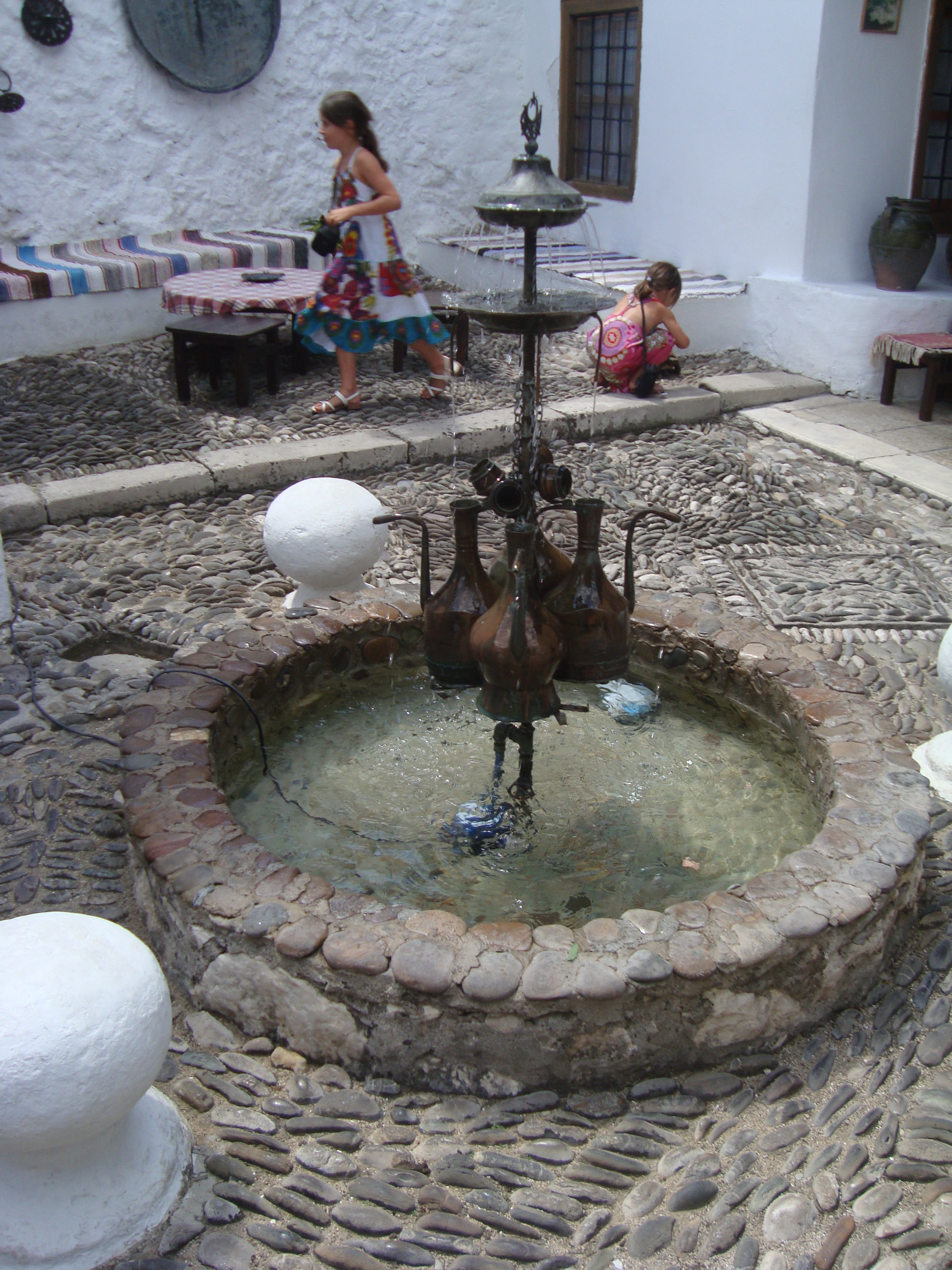 Fountain in Bosniak House